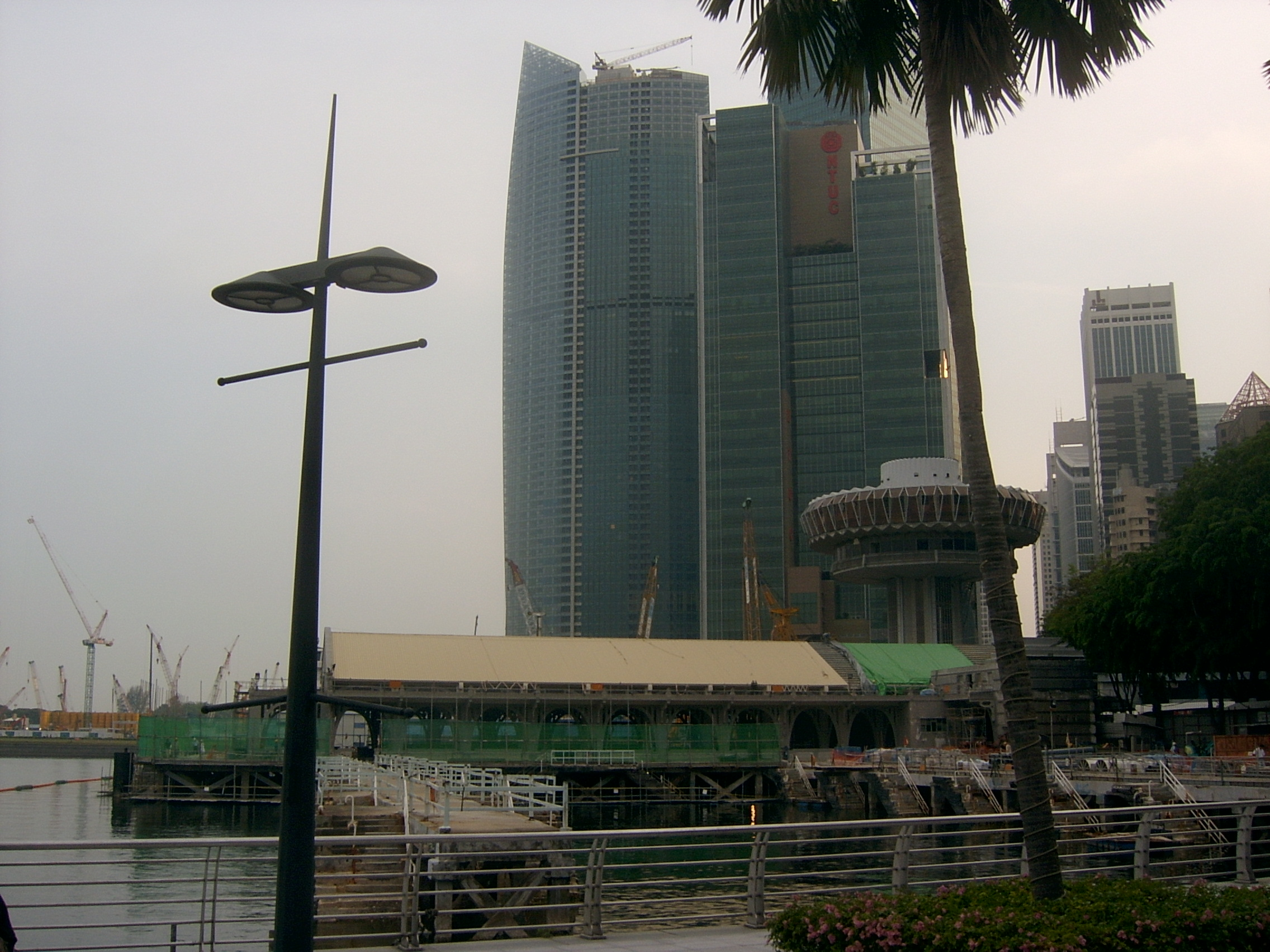 Clifford Pier along Collyer Quay at Marina Bay, Singapore, undergoing renovations.